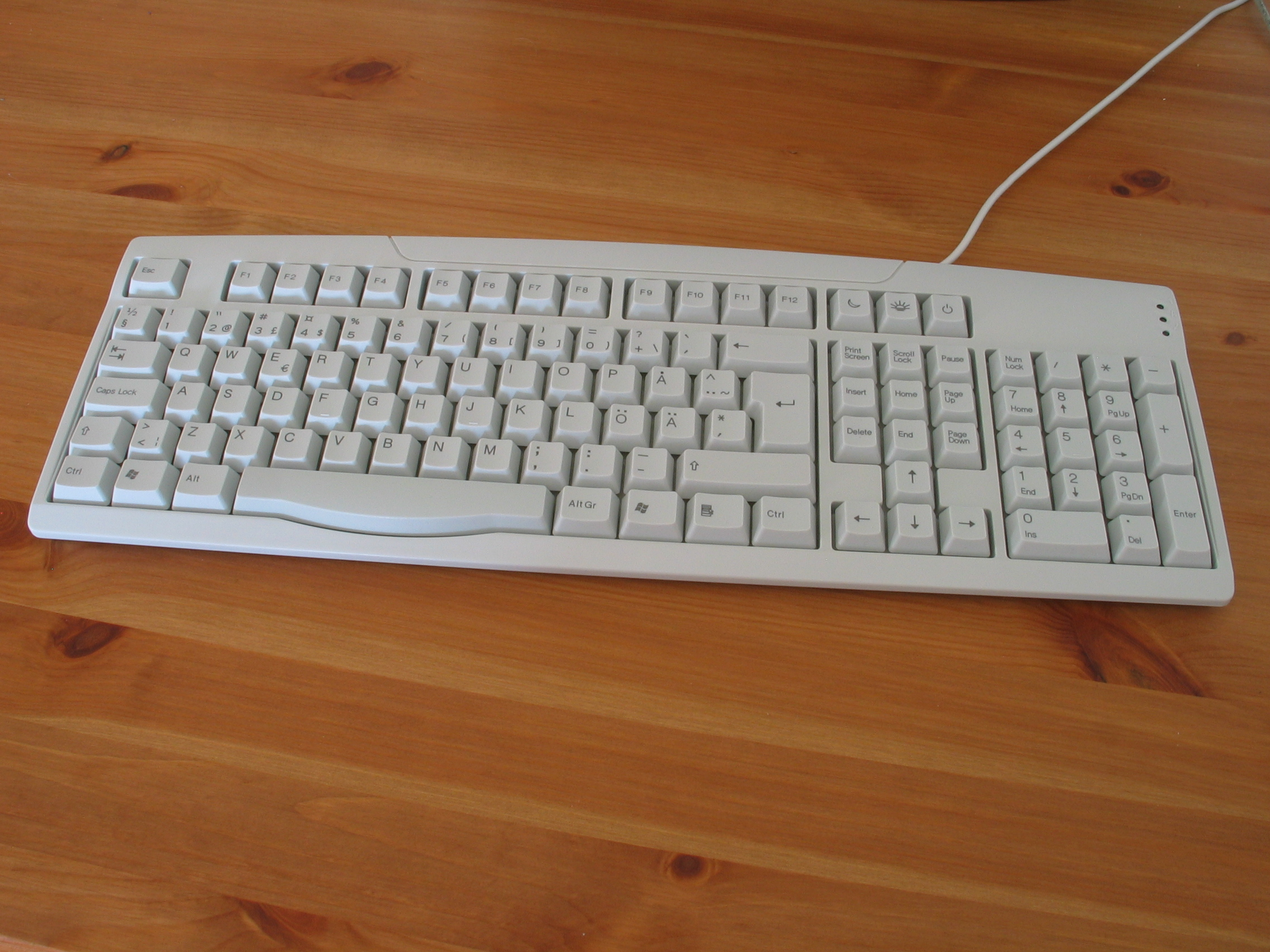 Swedish keyboard